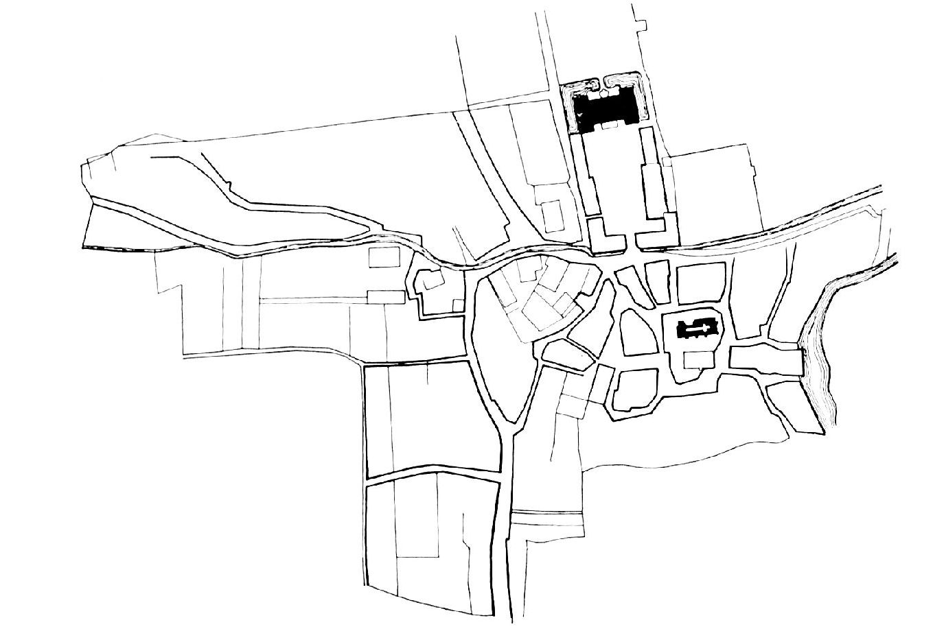 Ground plan of village Welda (Westf.)